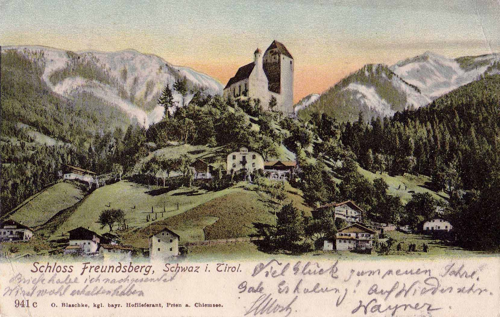 Lithography, about 1900. Note: Postcards were introduced to Austro-Hungarian monarchy by october 1, 1869, but first edited by postal authority only. By 1872, private editors were allowed to produce and sell postcards and started producing picture postcards from there on. Until 1905, only the frontside of the card was allowed to contain some personal message – the backside was reserved for the address. Therefore, blank space for the message is foreseen on the frontside of those early period's items.